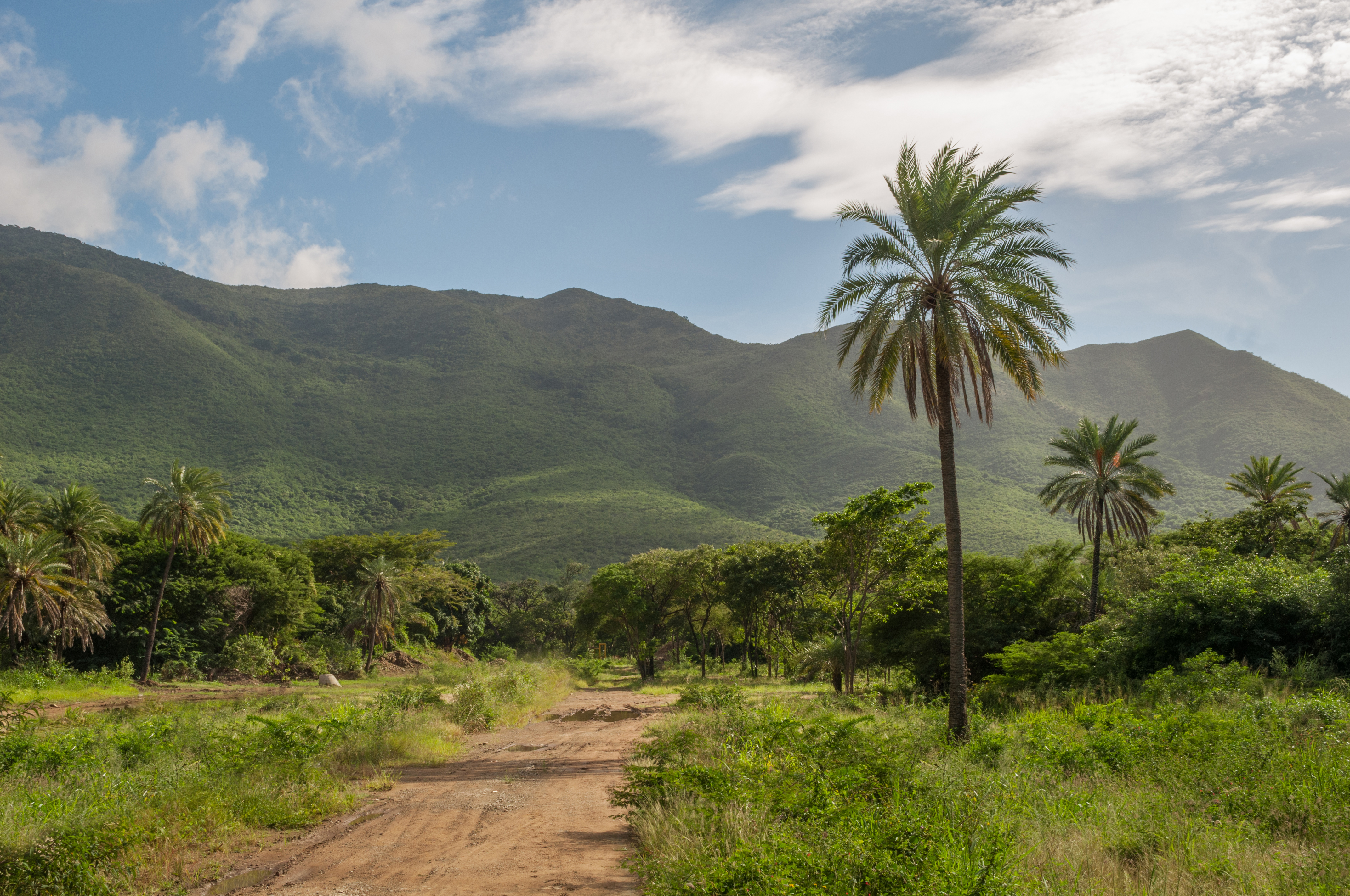 San Juan Bautista Valley is located on Isla Margarita on the hillside Copey (La Sierra) at a height of 1,000 meters above sea level. Because of its mild climate and its quiet mountain town has the slogan Silence laborious and evergreen